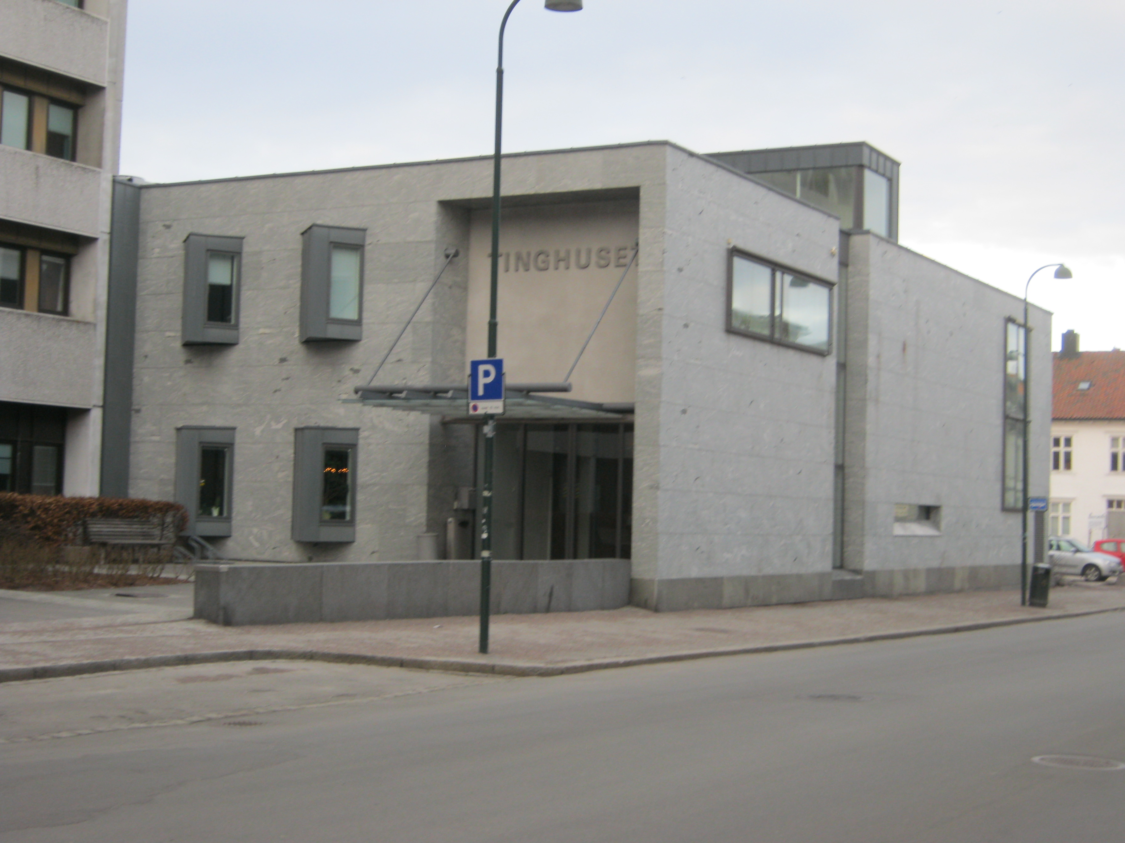 Kristiansand Courthouse 2013